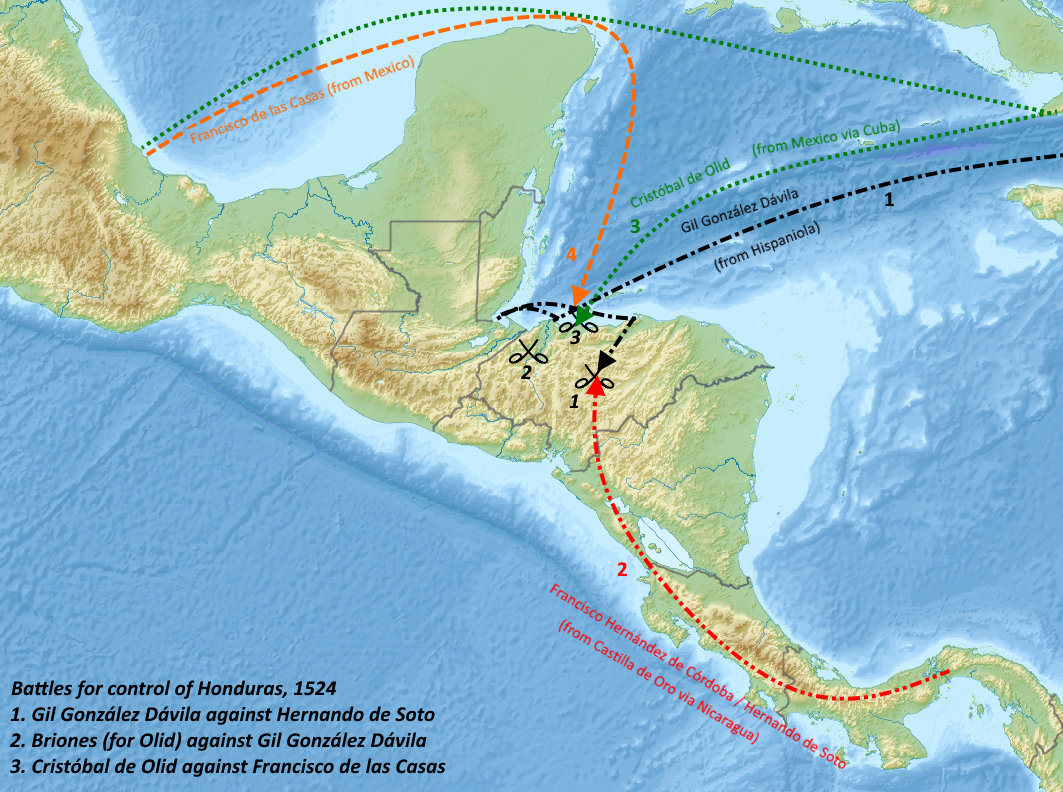 Four rival Spanish expeditions attempted to conquer Honduras in 1524, fighting 3 main engagements before Francisco de las Casas gained the upper hand and claimed the territory for Hernán Cortés.